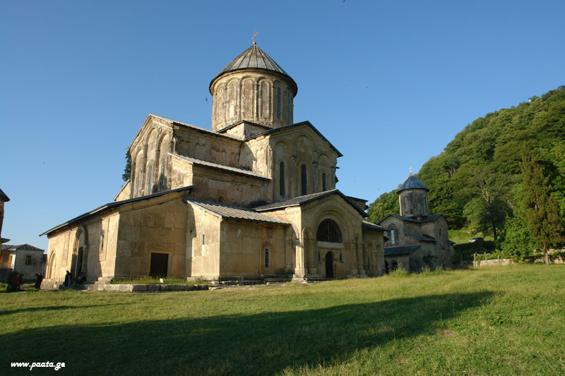 Gelati Monastery The Monastery of the Virgin - Gelati near Kutaisi (Imereti region of Western Georgia) was founded by the King of Georgia David the Builder (1089-1125) in 1106. The Gelati Monastery for a long time was one of the main cultural and intellectual centers in Georgia. It had an Academy which employed some of the most celebrated Georgian scientists, theologians and philosophers, many of whom had previously been active at various orthodox monasteries abroad or at the Mangan Academy in Constantinople. Among the scientists were such celebrated scholars as Ioane Petritsi and Arsen Ikaltoeli. Due to the extensive work carried out by the Gelati Academy, people of the time called it "a new Hellas" and "a second Athos". The Gelati Monastery has preserved a great number of murals and manuscripts dating back to the 12th-17th centuries. In Gelati is buried one of the greatest Georgian kings, David the Builder (Davit Agmashenebeli in Georgian).